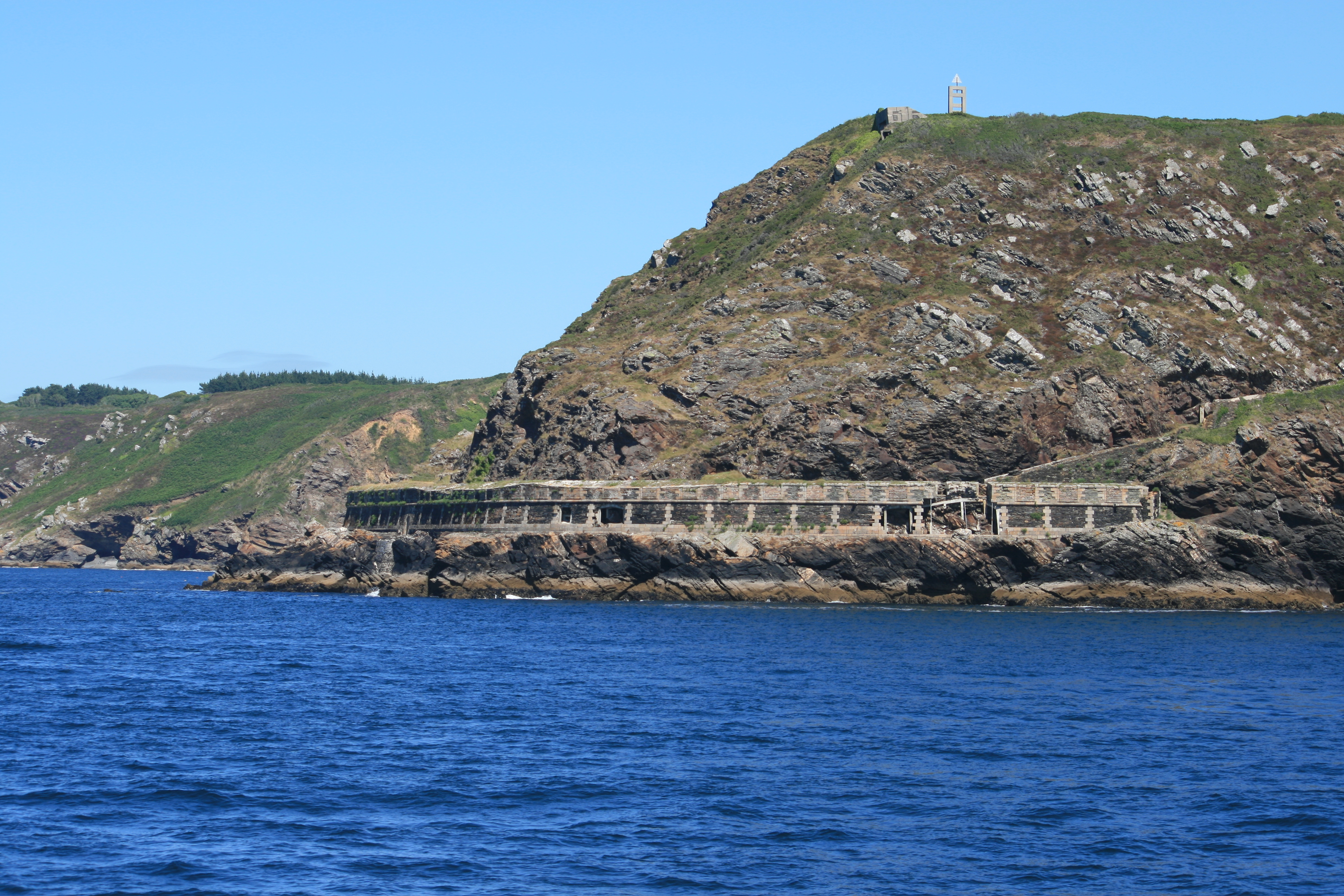 Pointe de Cornouaille (Cape of Cornouaille)